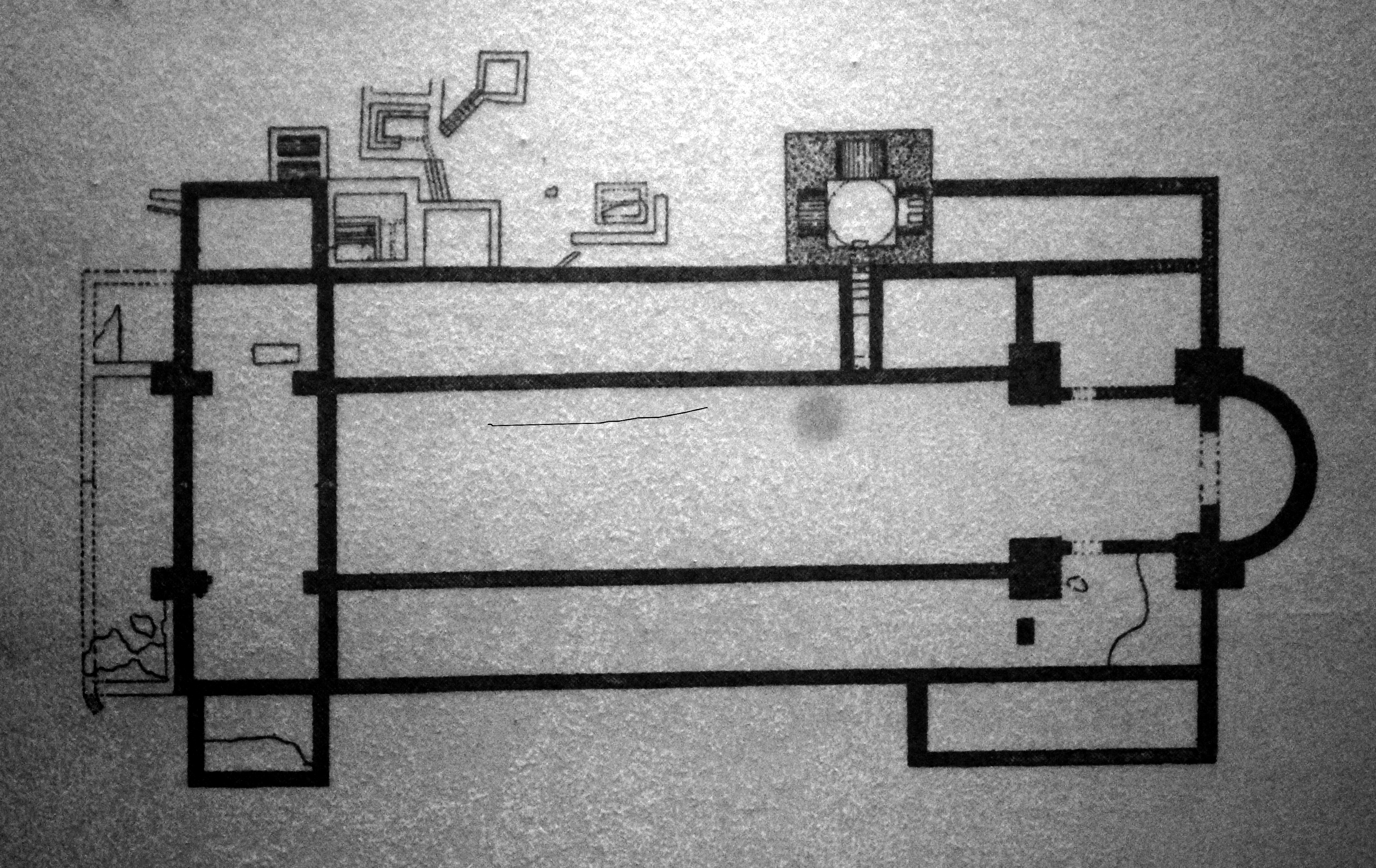 Athens, Greece: Byzantine and Christian Museum: Plan of the Ilissos Basilica.